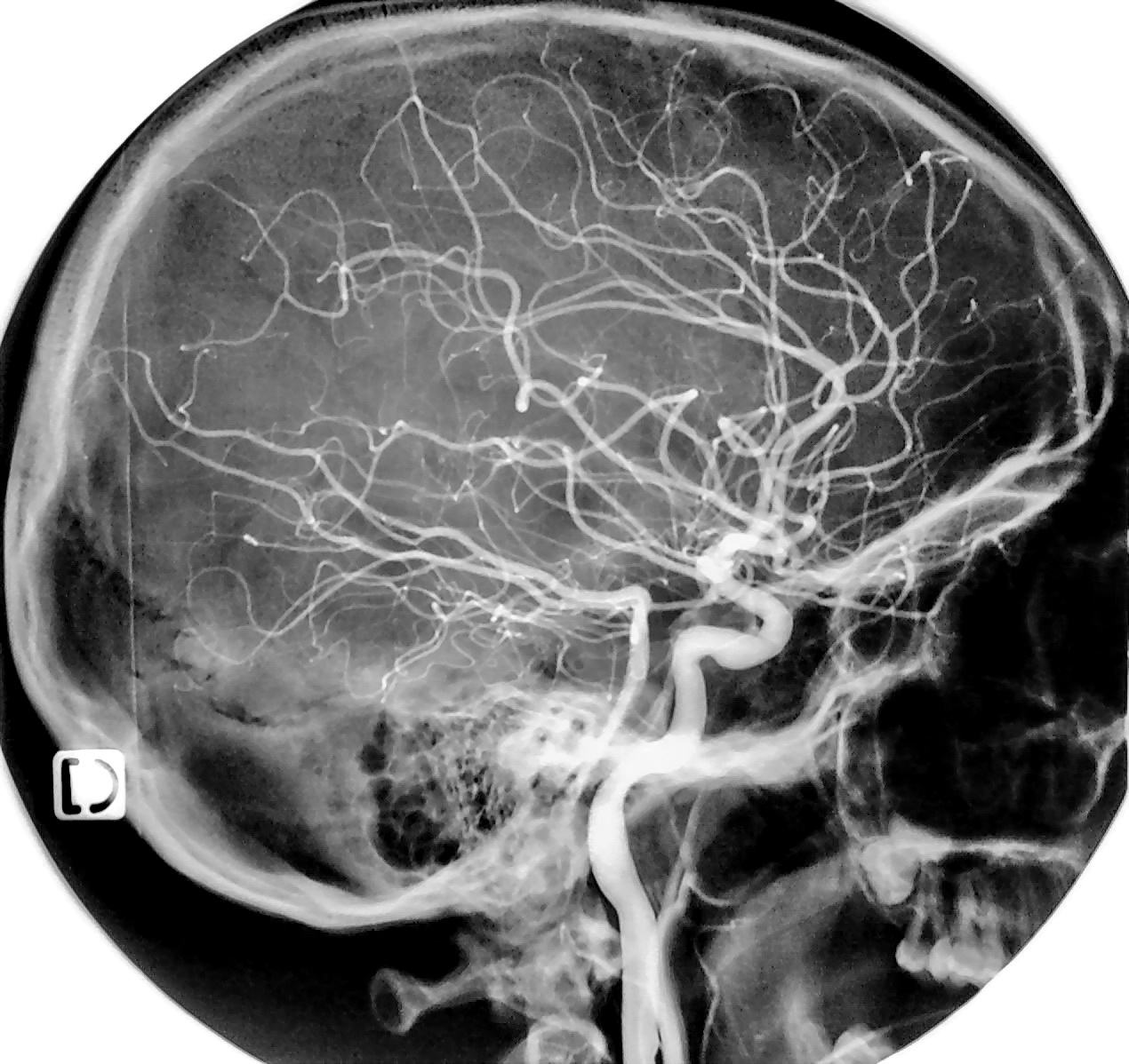 cerebal cascular imaging